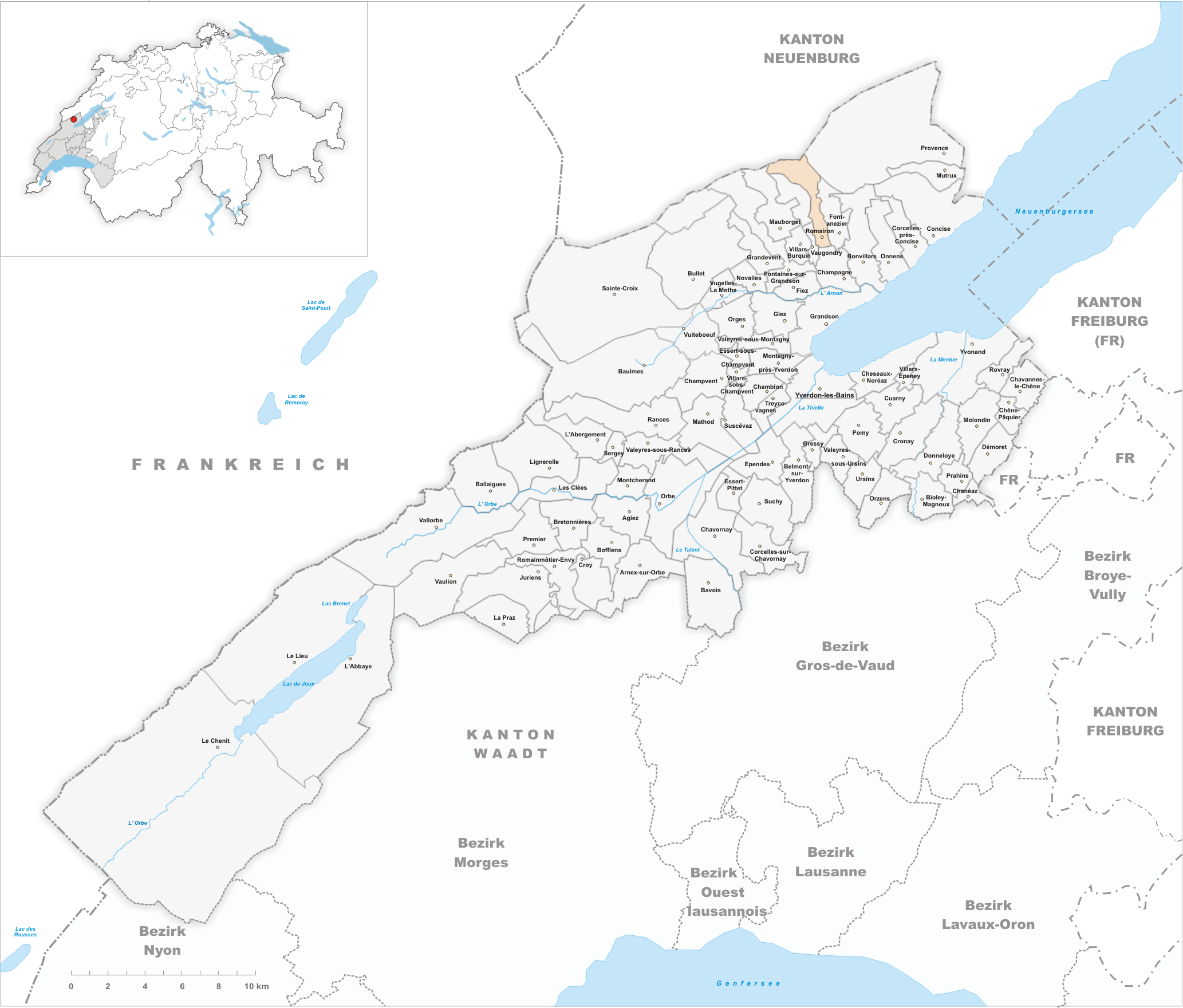 Municipality Romairon